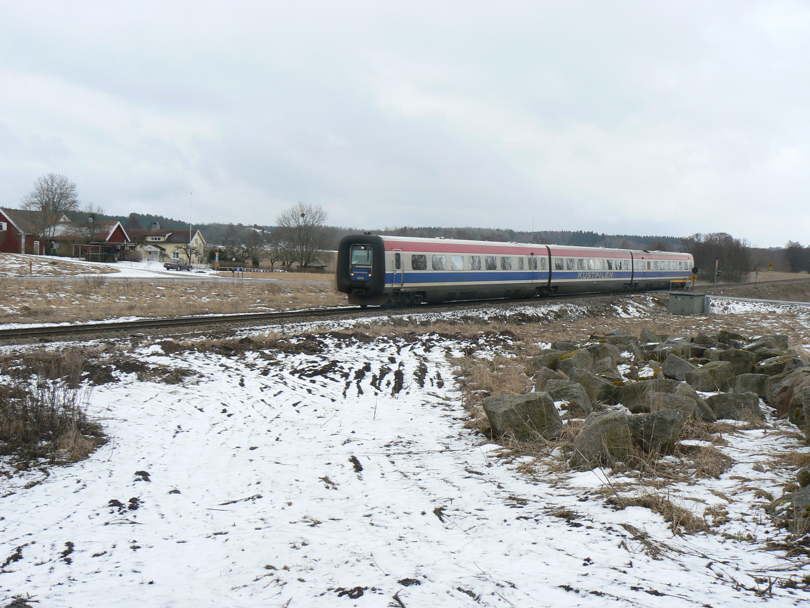 Y2 passenger train at Sturefors on the Stångådalsbanan railway in Sweden.